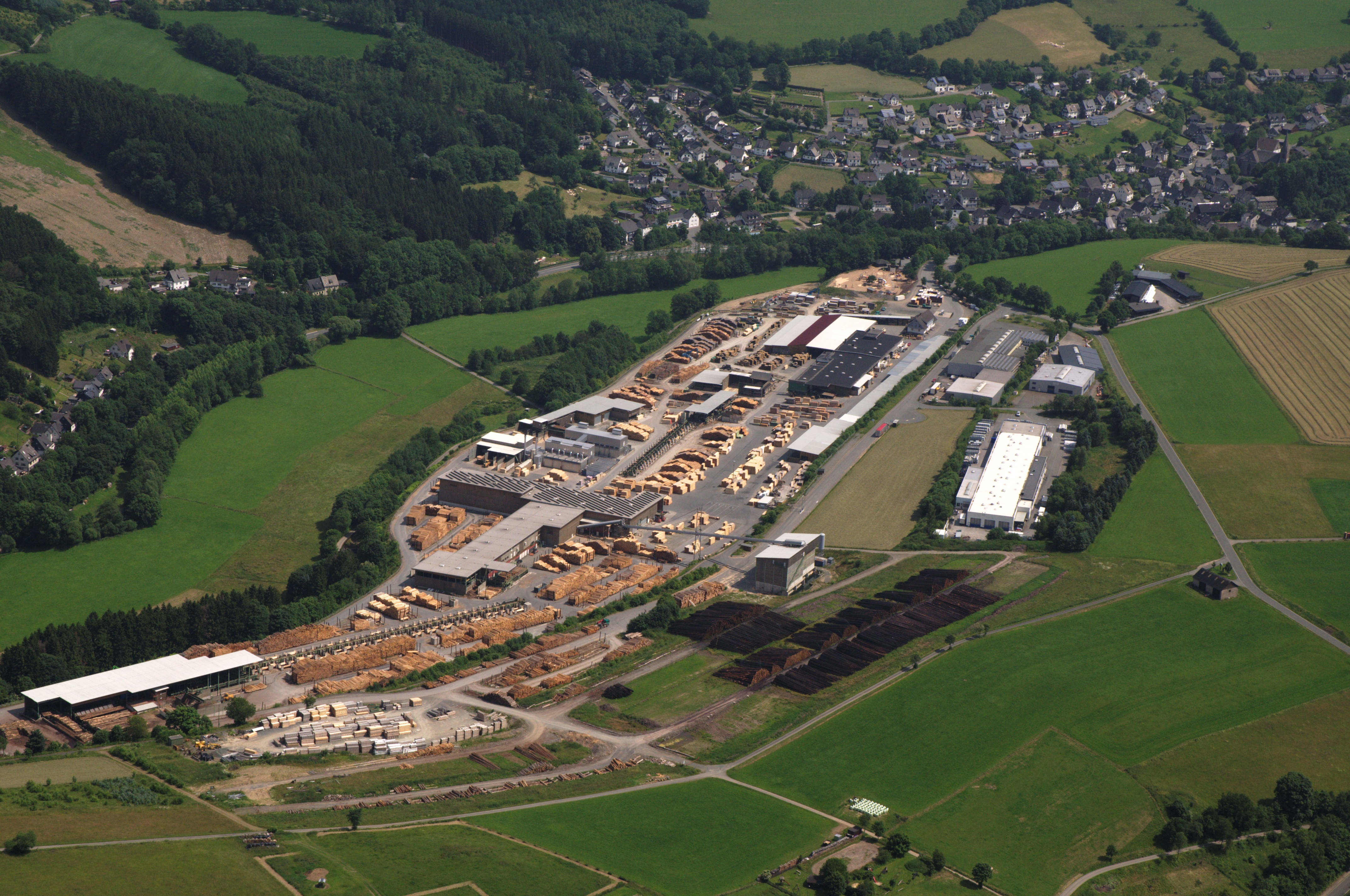 Fotoflug Sauerland-Ost, Sägewerk Pieper-Holz und Gewerbegebiet bei Assinghausen; Assinghausen The making of this document was supported by the Community-Budget of Wikimedia Germany.